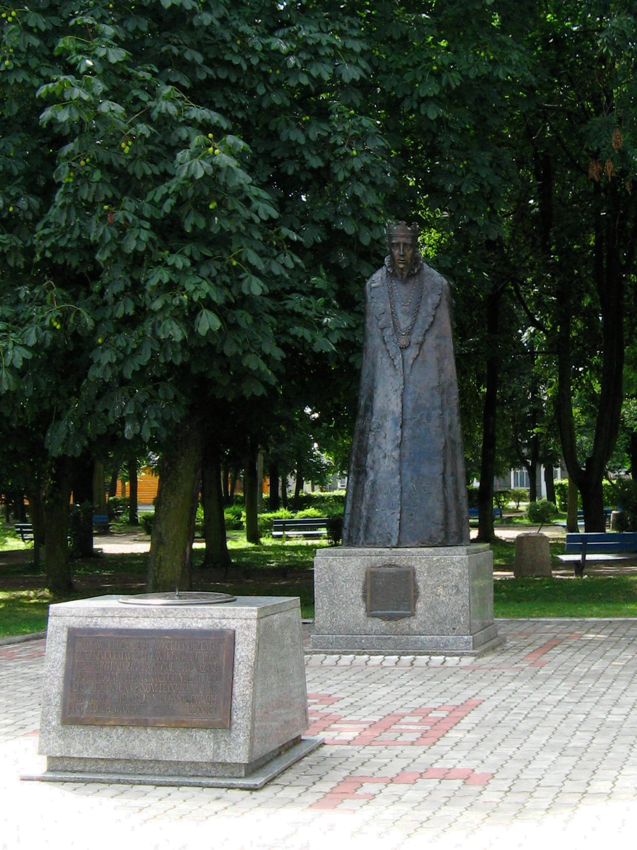 Knyszyn. Statue of the Sigismund II Augustus (1997) and a sundial (1998) by city square